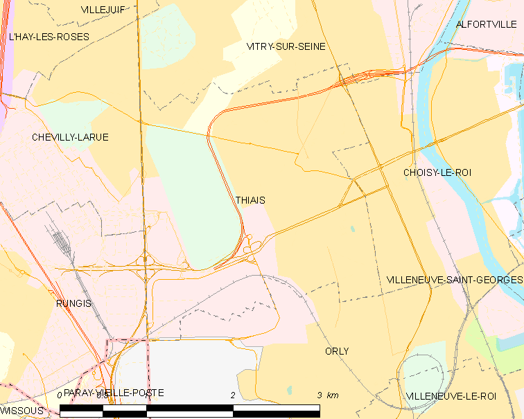 Map of French municipality Thiais